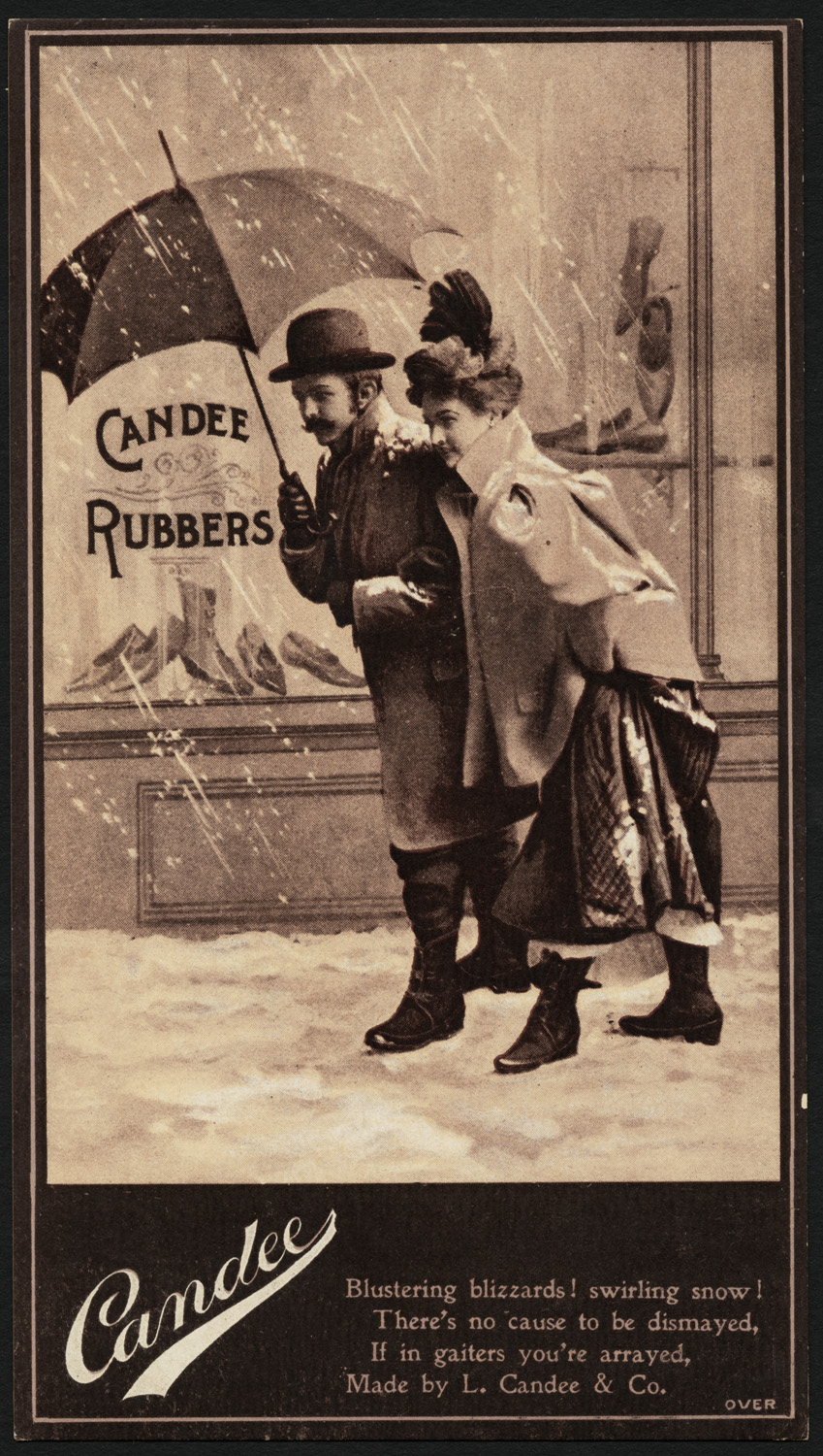 File name: 10_03_002507a Binder label: Shoes Title: Candee rubbers - blustering blizzards! Swirling snow! There's no cause to be dismayed, if in gaiters you're arrayed, made by L. Candee & Co. [front] Created/Published: N. Y. : G. H. Buek & Co. Date issued: 1870 - 1900 (approximate) Physical description: 1 print : lithograph ; 16 x 9 cm. Genre: Advertising cards Subject: Adults; Rubber footwear; Umbrellas Notes: Title from item. Statement of responsibility: L. Candee & Co. Collection: 19th Century American Trade Cards Location: Boston Public Library, Print Department Rights: No known restrictions.